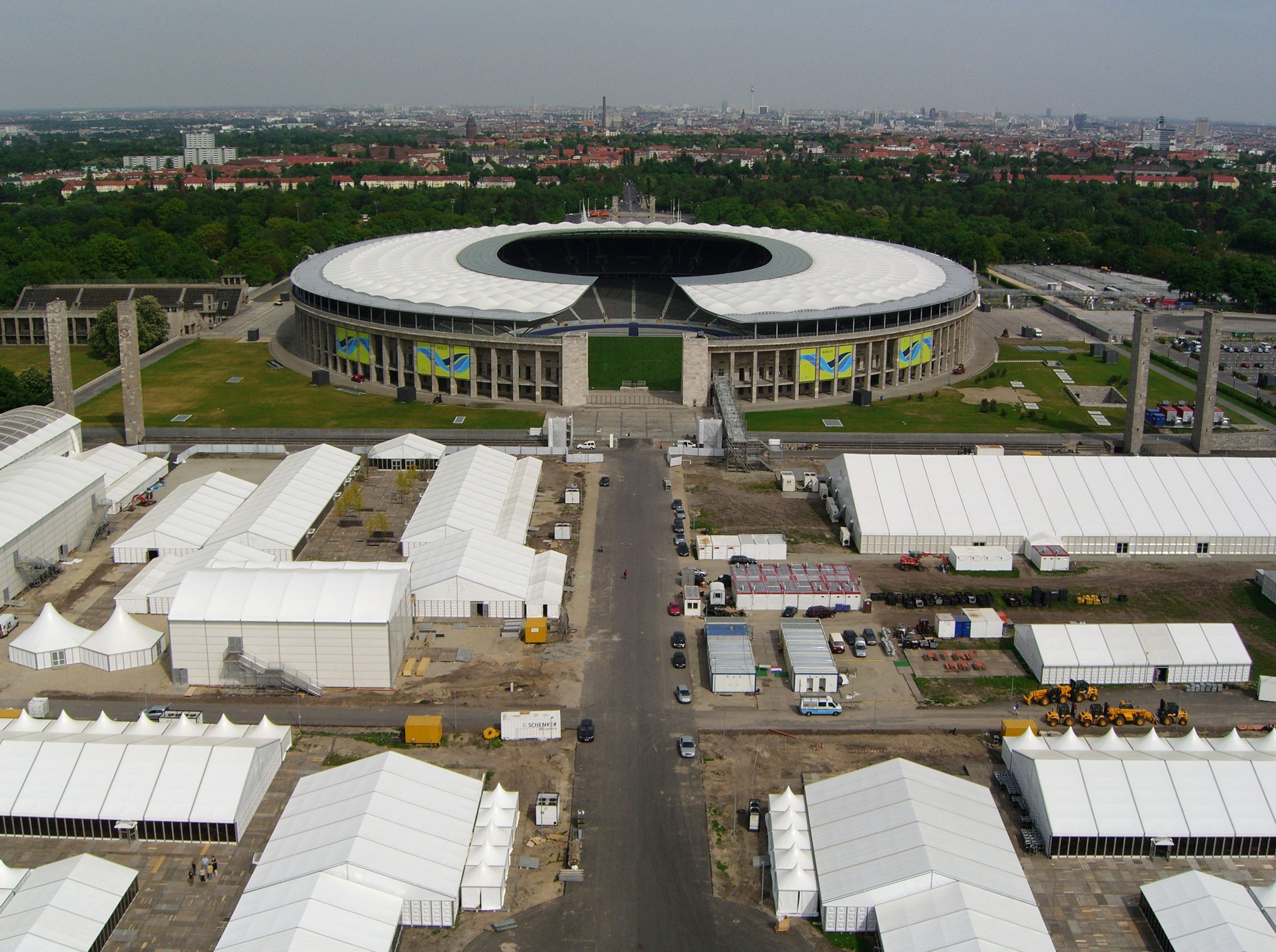 Olympic area in Berlin during FIFA World Cup 2006